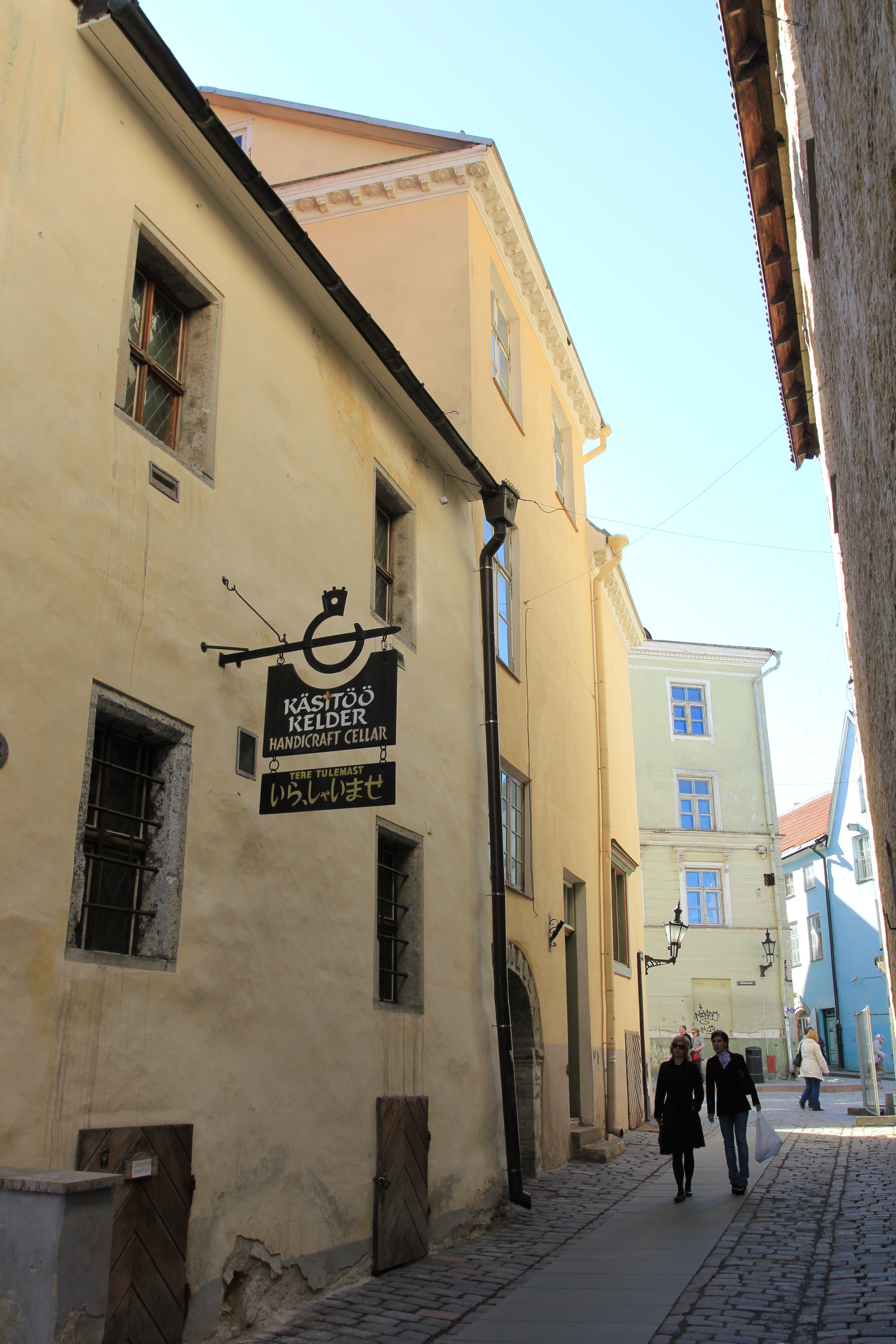 Old town prison of Tallinn.